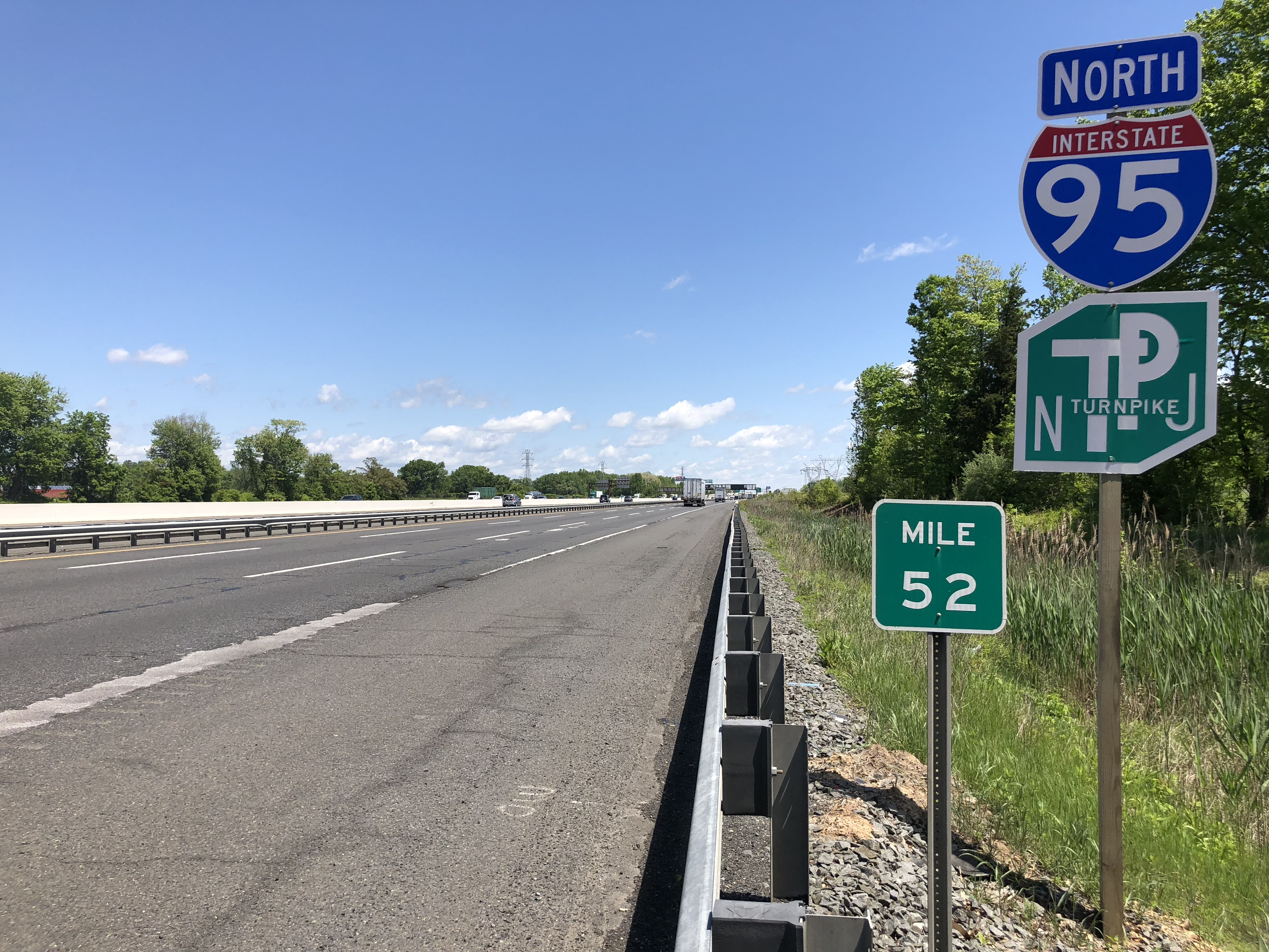 View north along Interstate 95 (New Jersey Turnpike) between Exit 6 and Exit 7 in Mansfield Township, Burlington County, New Jersey